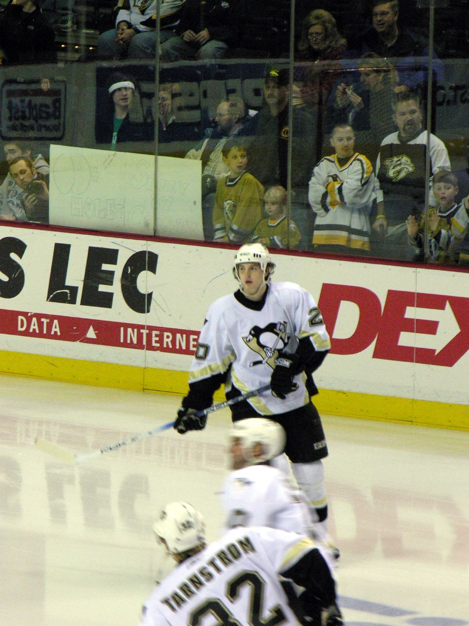 Colby ArmstrongDSCN1536